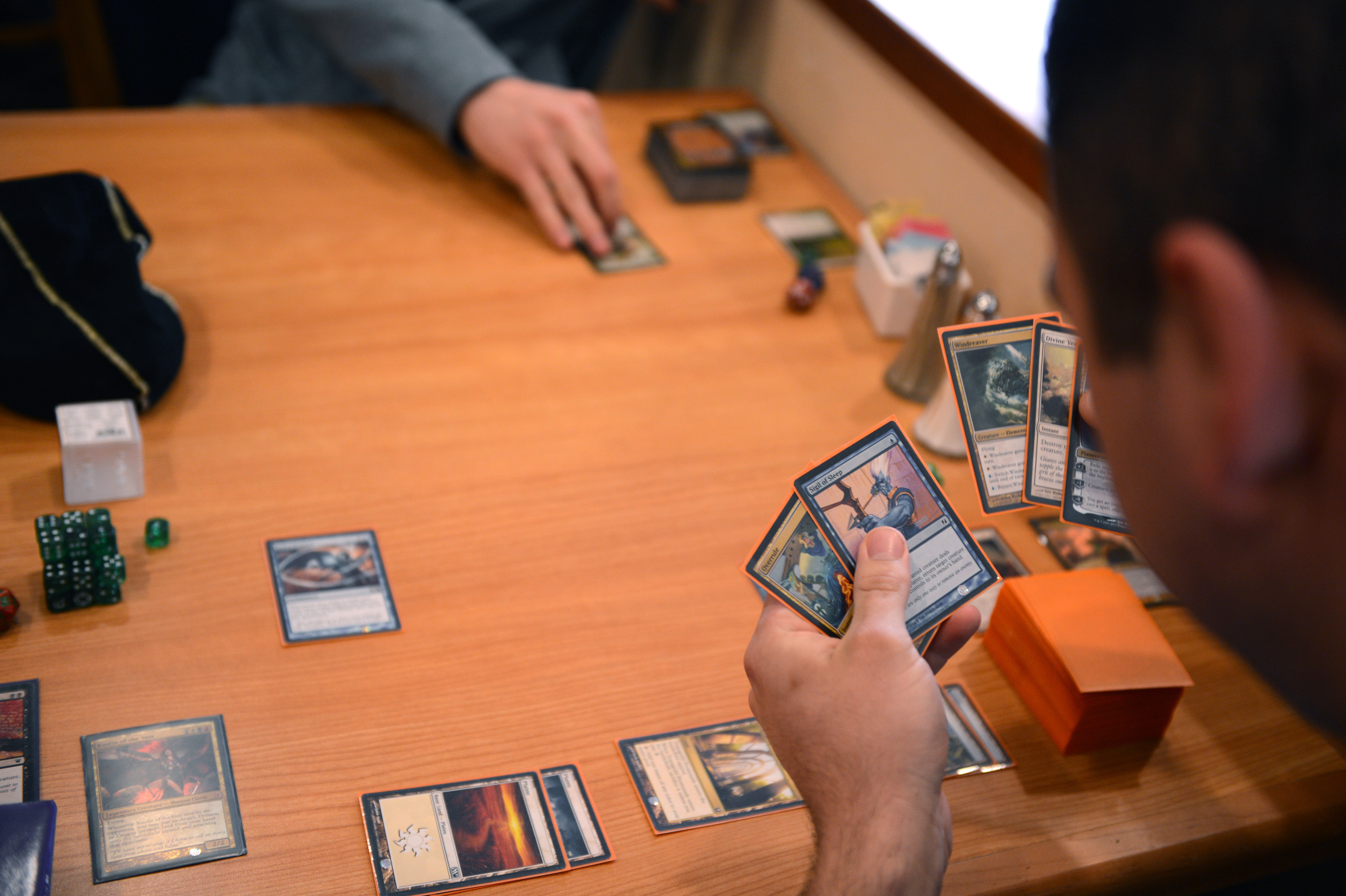 SPANGDAHLEM AIR BASE, Germany – U.S. Air Force Airman Jarred Lawson, 52nd Component Maintenance Squadron aerospace propulsion journeyman from Powell, Ohio, plays a game of Magic: The Gathering at Club Eifel April 6, 2013. Saturday Game Night offers anything from cards to role–playing games.